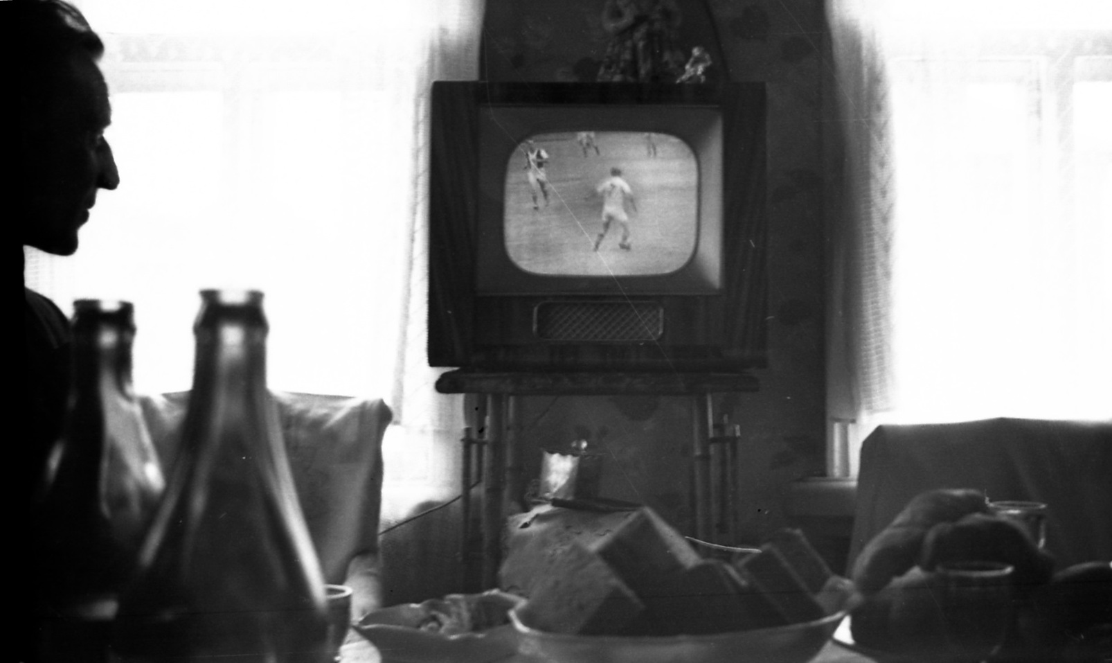 View brand TV Record-B approx 1958.